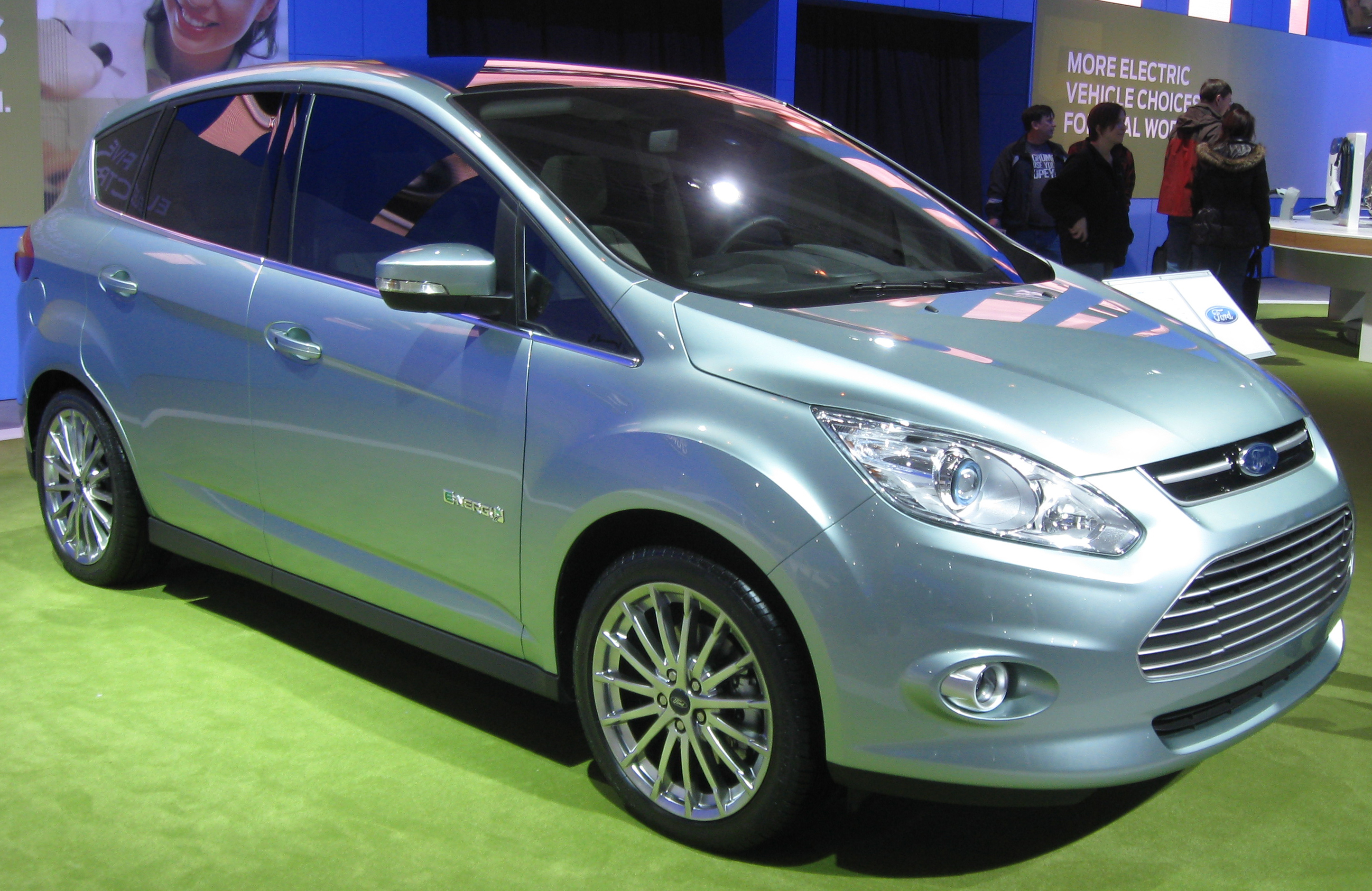 Ford C-Max photographed at the 2011 Washington (D.C.) Auto Show.